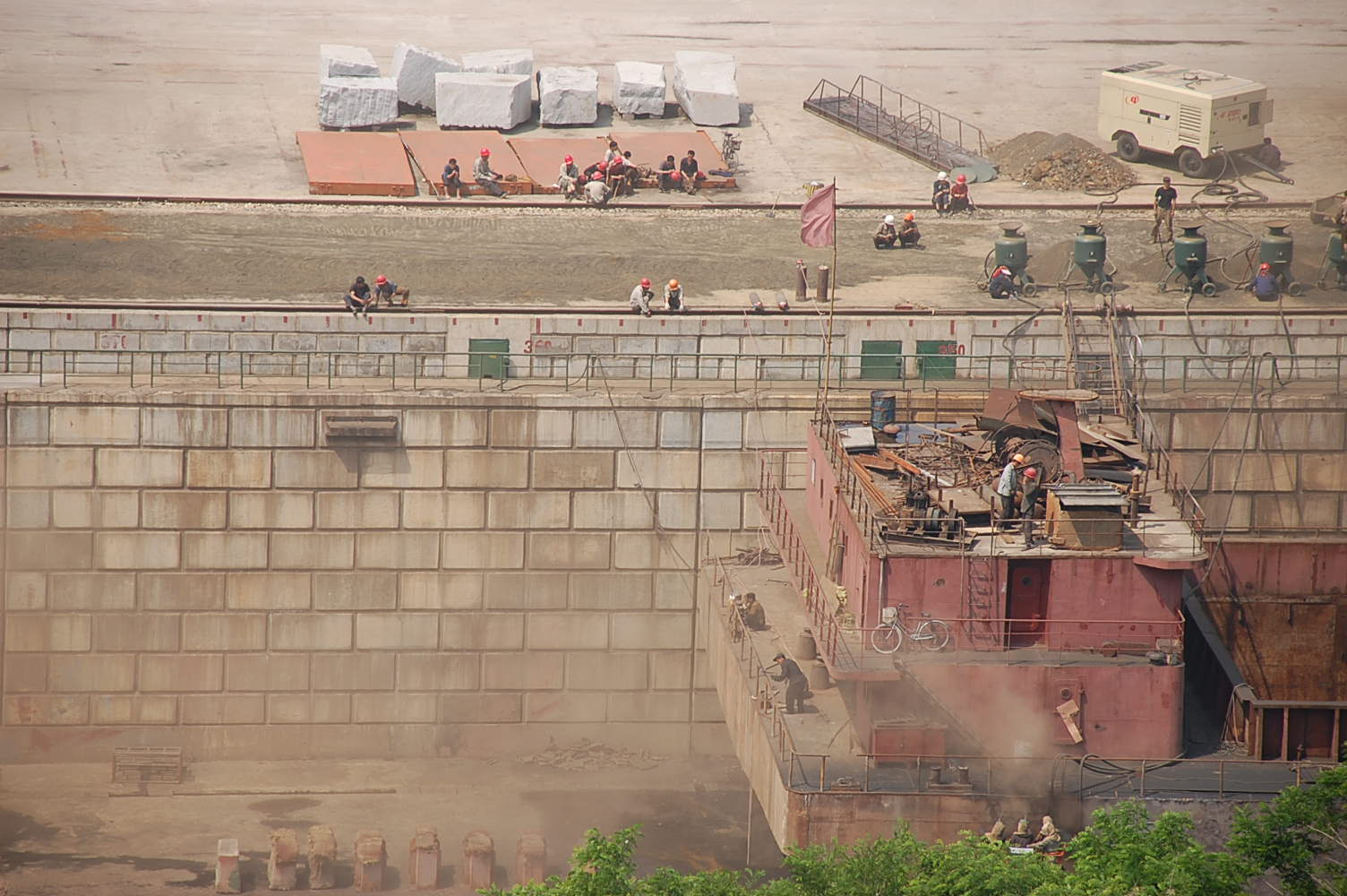 Dock No. 2. Nampo, North Korea.